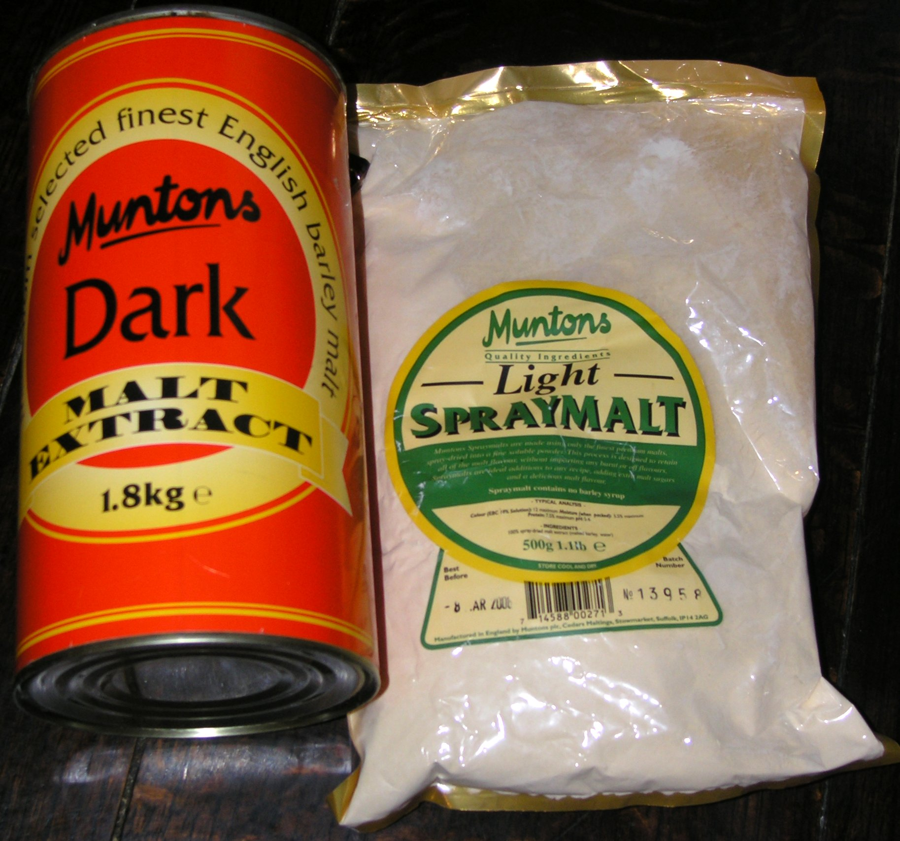 Homebrewing malt extracts: liquid in a can and spray dried. Shermozle 16:00, 8 January 2006 (UTC)